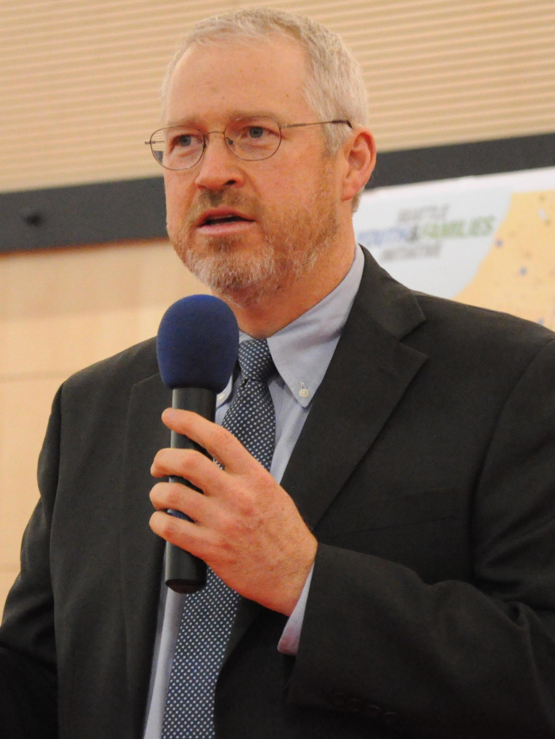 Seattle Mayor Michael McGinn addressing a "town hall" meeting at Nathan Hale High School, Seattle, Washington, USA.